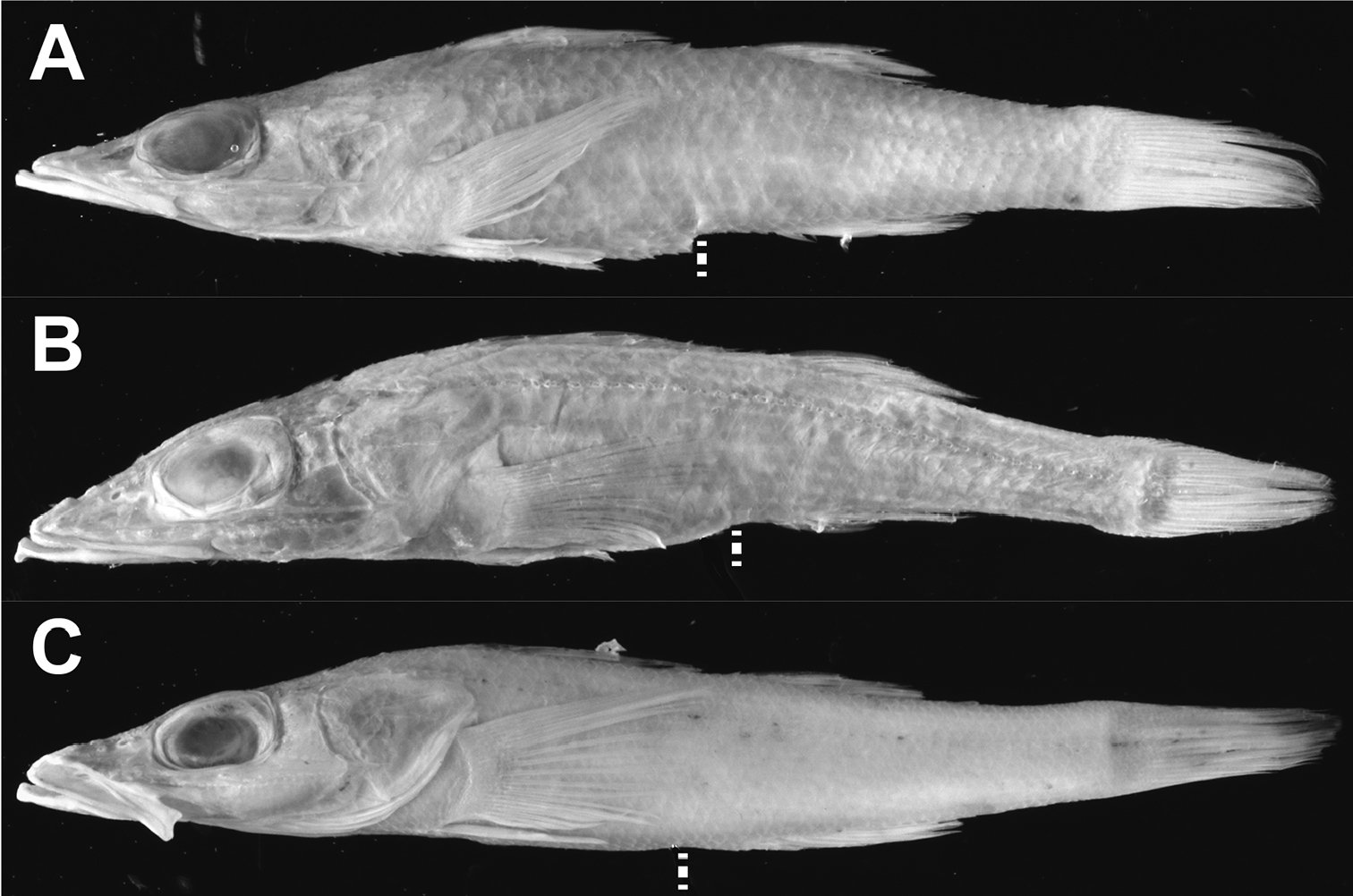 Lateral view of the three species of Parabembras; A P. curta, FAKU 41447, 143.5 mm SL B P. robinsoni, NSMT-P 129791, 165.1 mm SL C P. multisquamata, holotype, MNHN-IC-2008-1516, 167.3 mm SL. White line indicates anus.